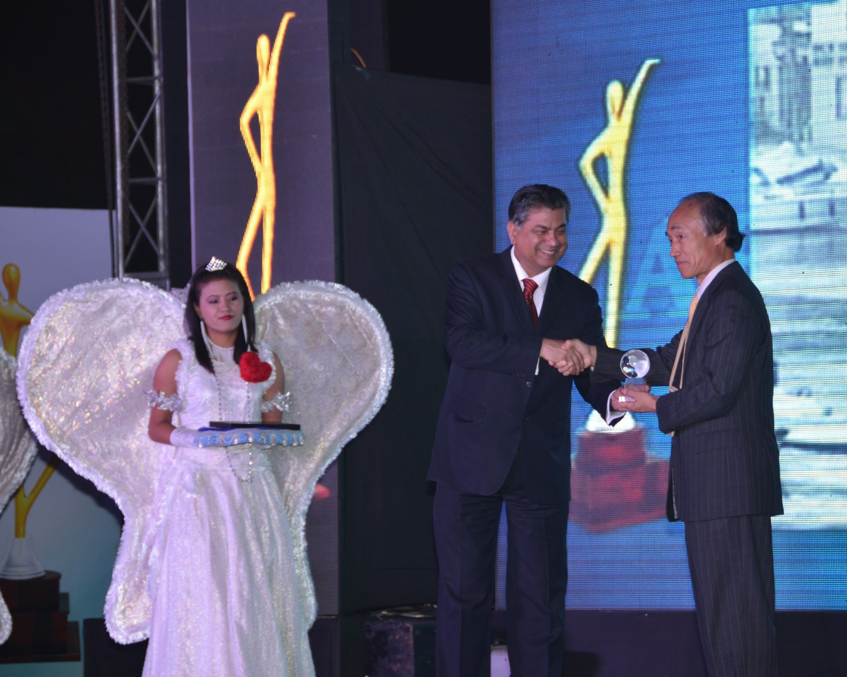 NHK wins Dennis Anthony Memorial Award 2011